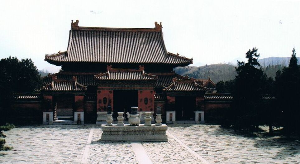 chongling